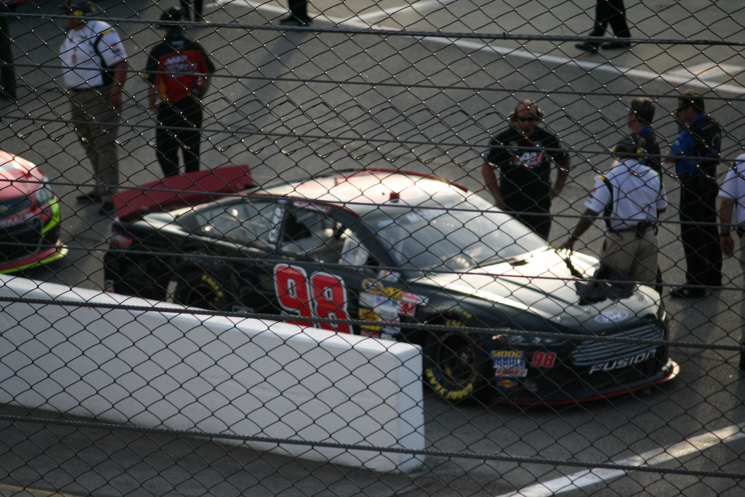 Michael McDowell's No. 98 Ford waits to go out to qualify for the NASCAR Sprint Cup Series Toyota Owners 400 at Richmond International Raceway, April 26 2013.